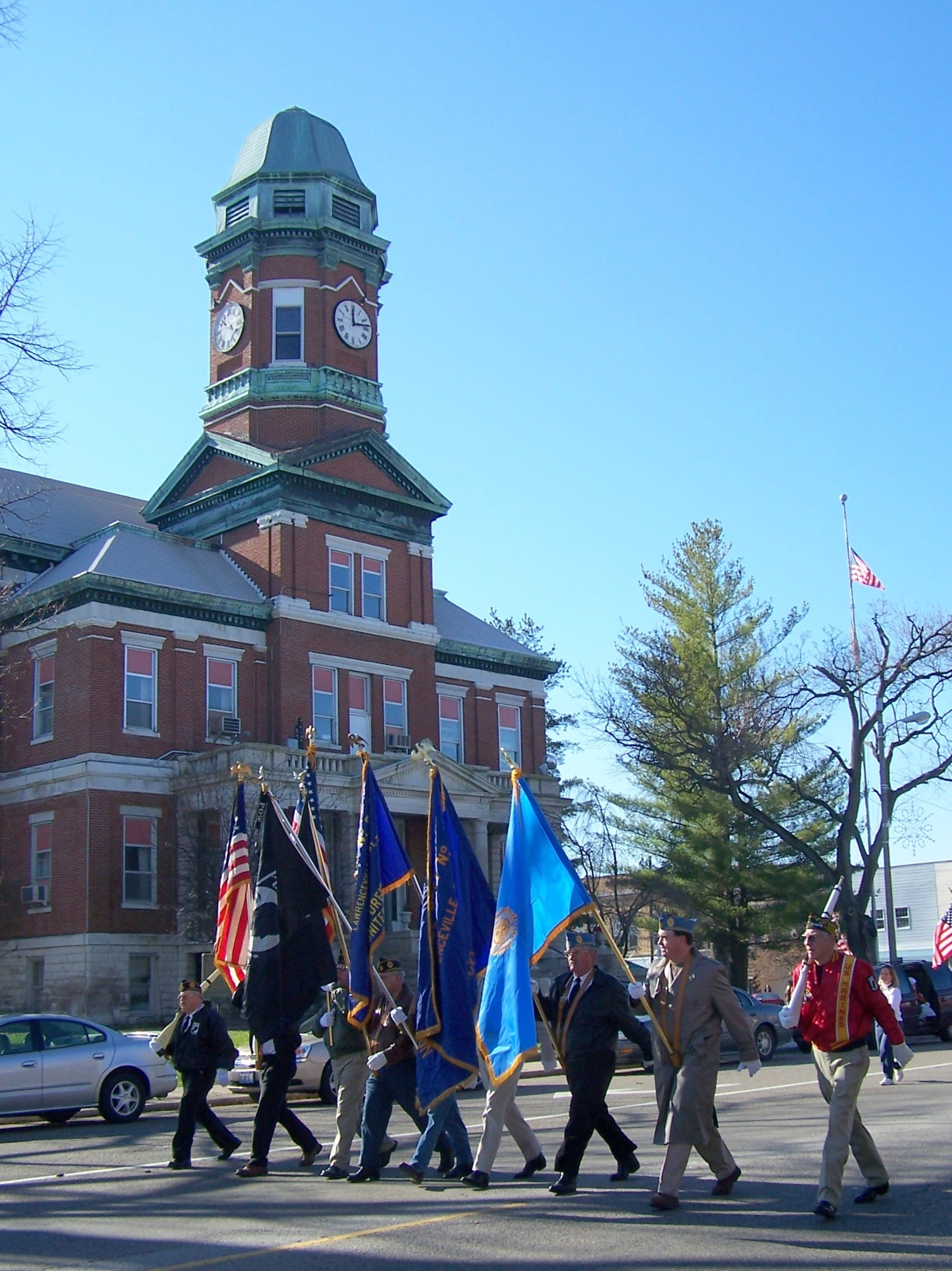 Photo of the Lawrence County courthouse in Lawrenceville during the Christmas parade 2006.